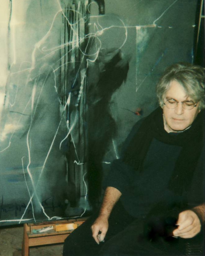 The Danish artist Lothar Oppermann in his Copenhagen studio, Peder Hvitfeldts Stræde 15, October 1992. On the easel his latest oil painting titled "Implosion".